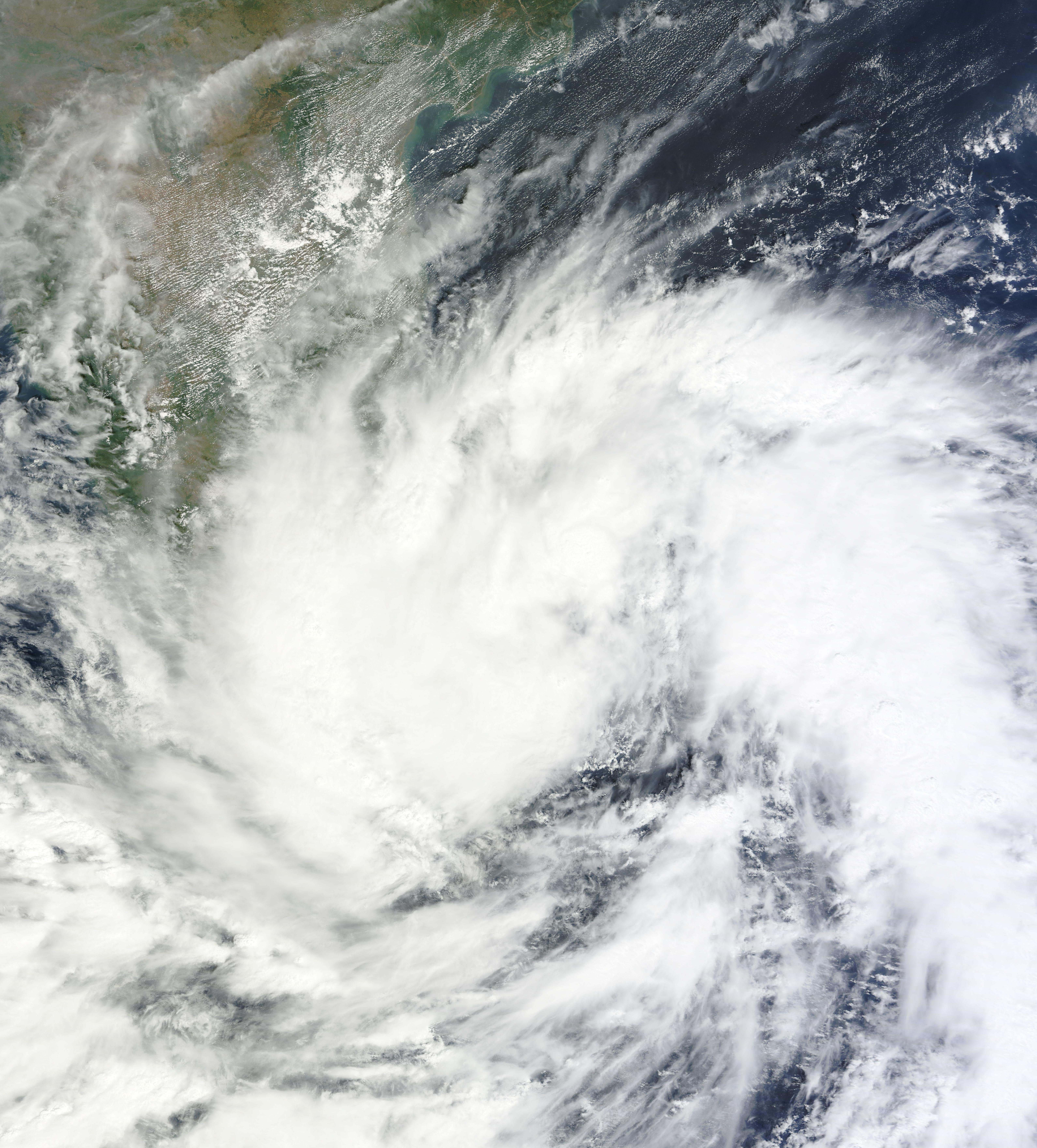 Deep Depression BOB 02 over the Bay of Bengal, nearing the Indian coast, captured by NASA's Terra Satellite on October 29, 2012